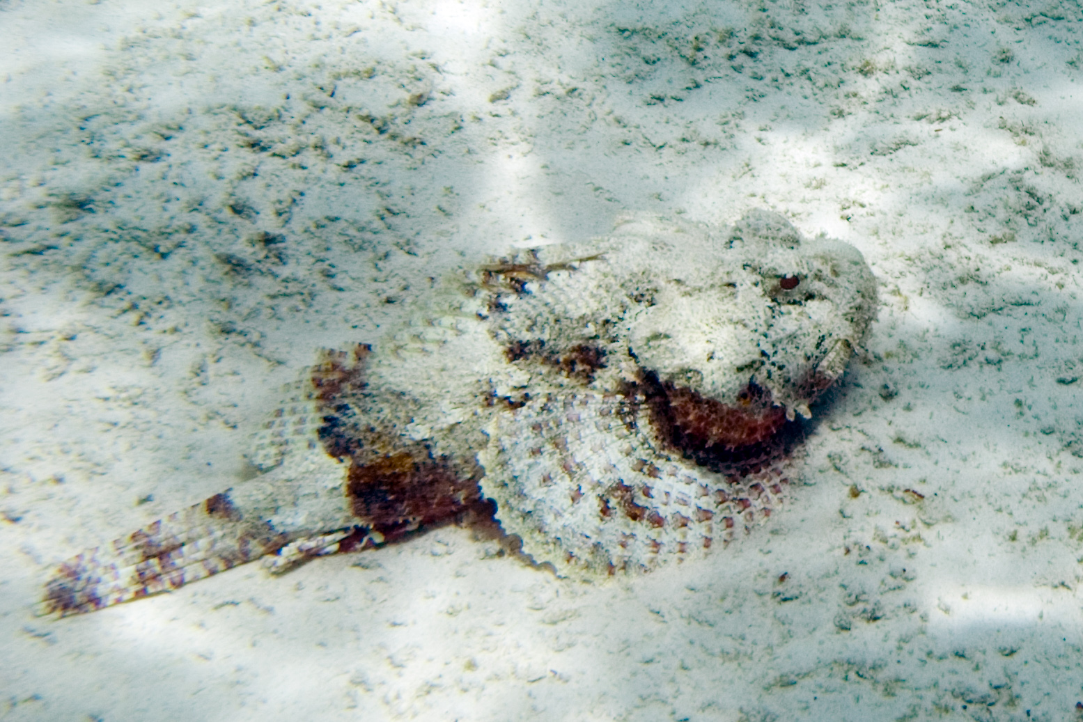 spotted scorpionfish Scorpaena plumieri